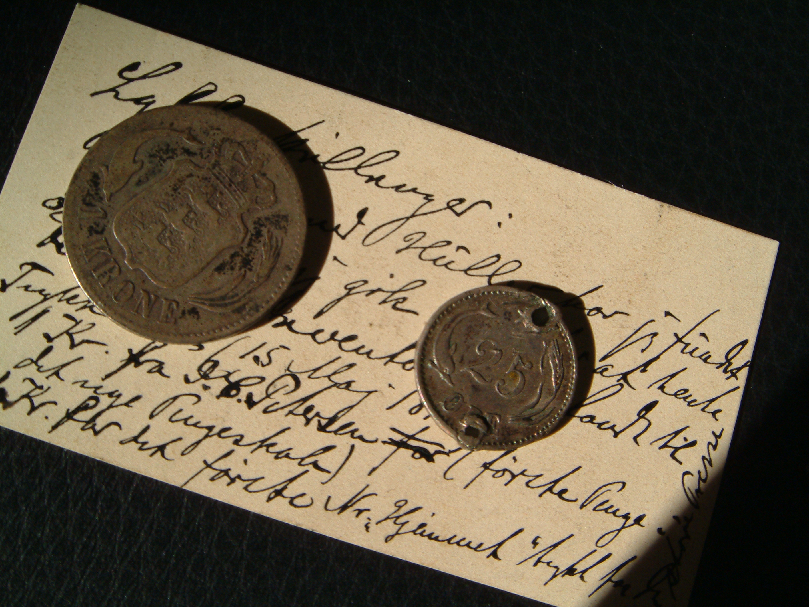 Egmonts Lucky Coin Which he found on his way to establish his company.